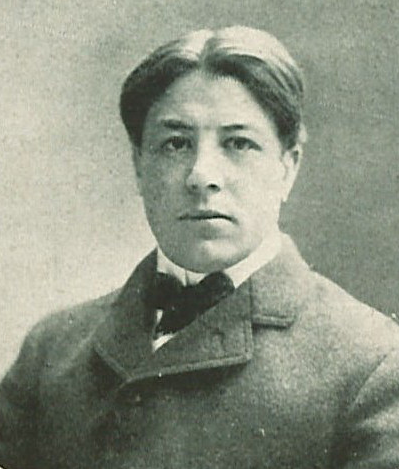 Photograph of Alden Knipe